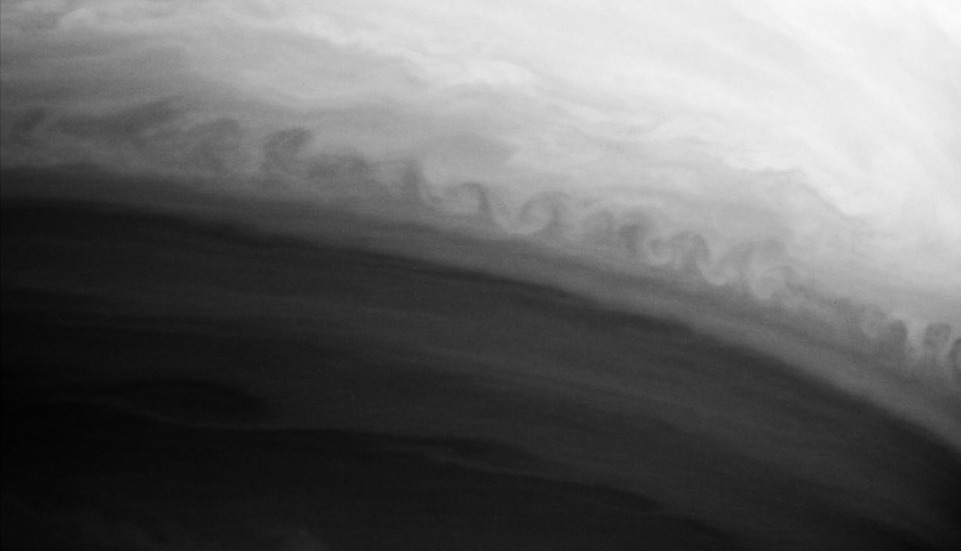 A Kelvin-Helmholtz instability on Saturn, caused by the interaction between two bands of the planet's atmosphere. Image from the Cassini probe. Caption from NASA's press release: This turbulent boundary between two latitudinal bands in Saturn's atmosphere curls repeatedly along its edge in this Cassini image. This pattern is an example of a Kelvin-Helmholtz instability, which occurs when two fluids of different density flow past each other at different speeds. This type of phenomenon should be fairly common on the gas giant planets given their alternating jets and the different temperatures in their belts and zones. The image was taken with the Cassini spacecraft narrow angle camera on October 9, 2004, at a distance of 5.9 million kilometers (3.7 million miles) from Saturn through a filter sensitive to wavelengths of infrared light centered at 889 nanometers. The image scale is 69 kilometers (43 miles) per pixel.